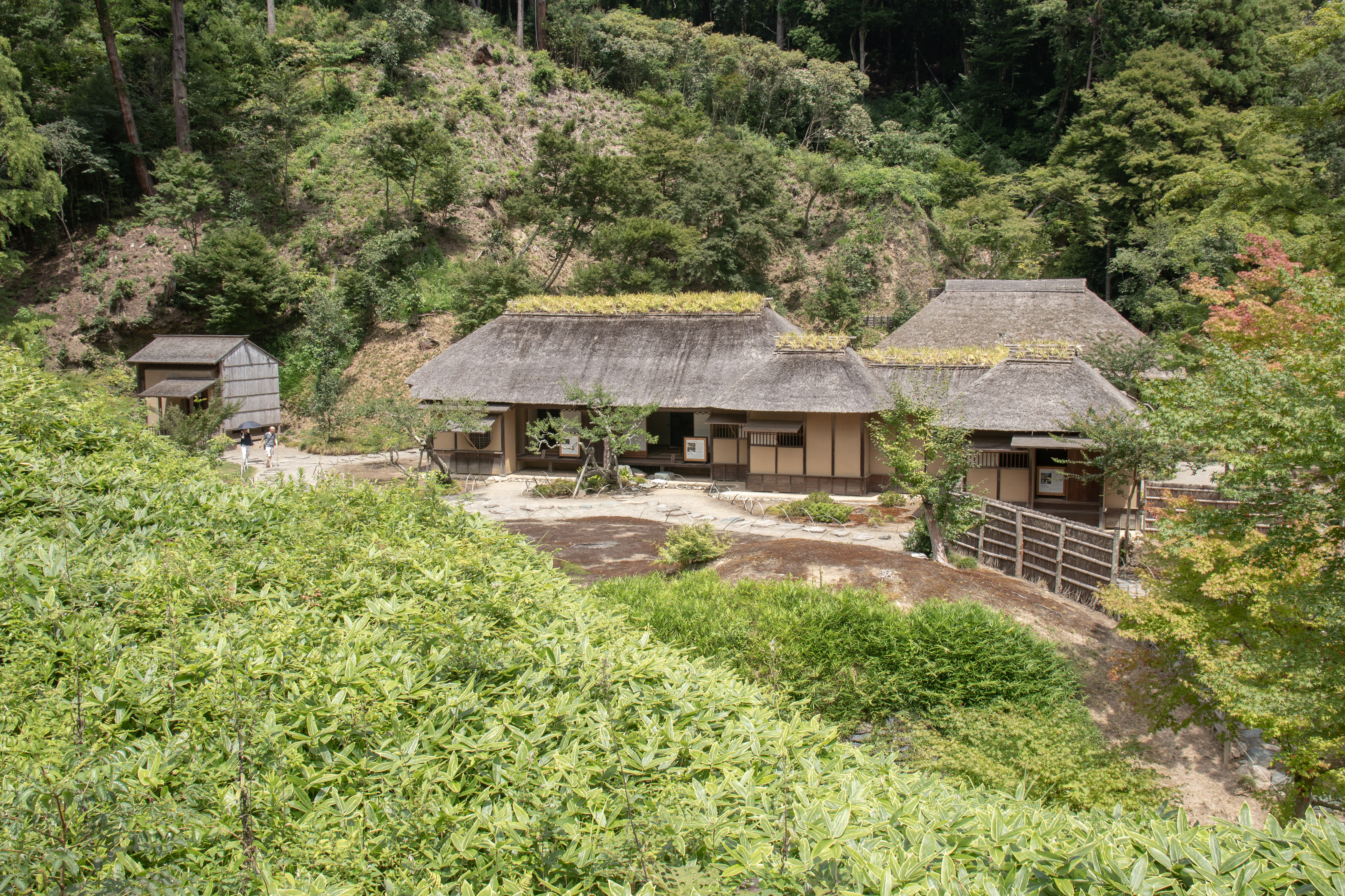 Seizanso(西山荘 せいざんそう), Hitachi-Ota City, Ibaraki, Japan